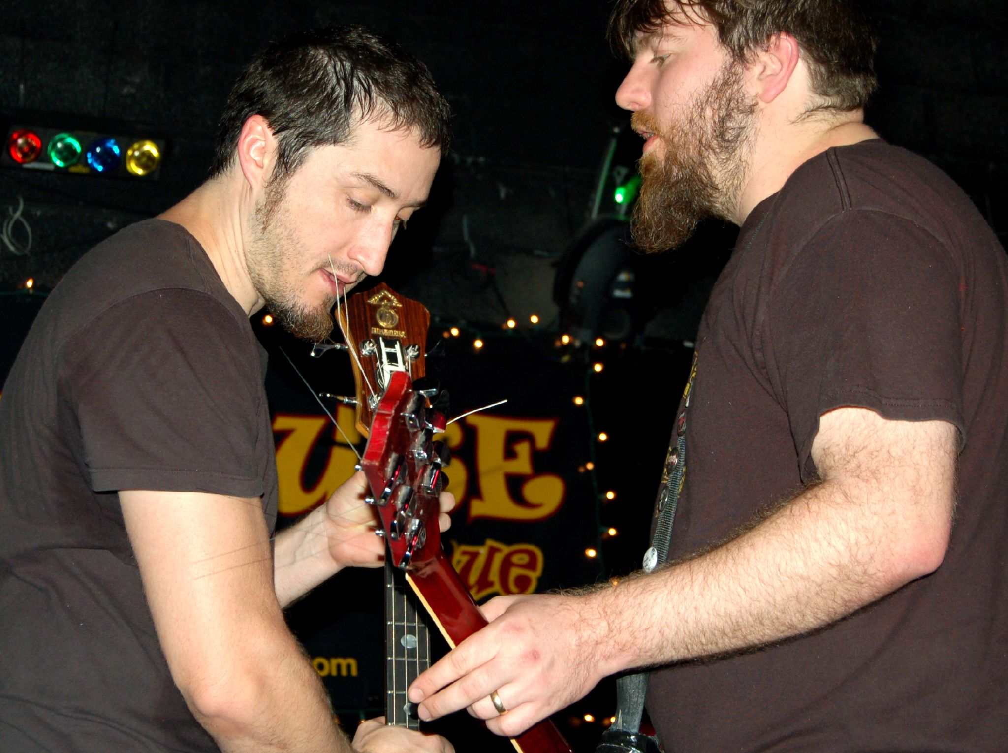 Pinback live